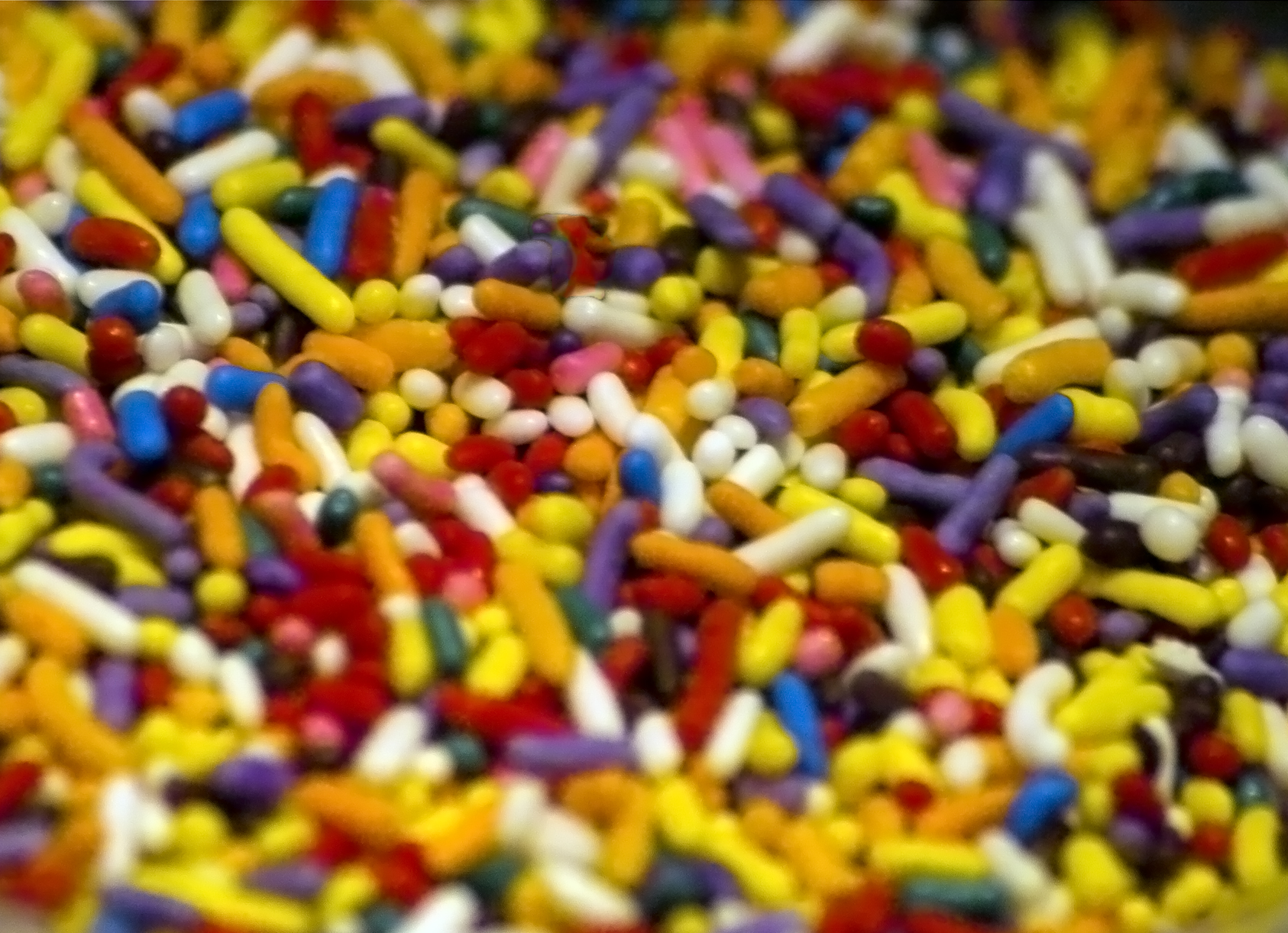 Candy sprinkles used as topping on ice cream and baked goods